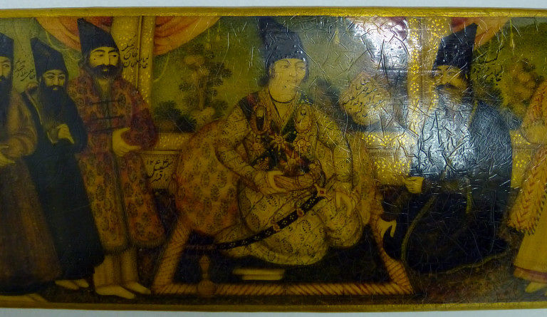 The top of this pen box shows a beardless official holding court. He was Manuchihr Khan, also known as Mu‘tamad al-Dawlah (d. 1847)